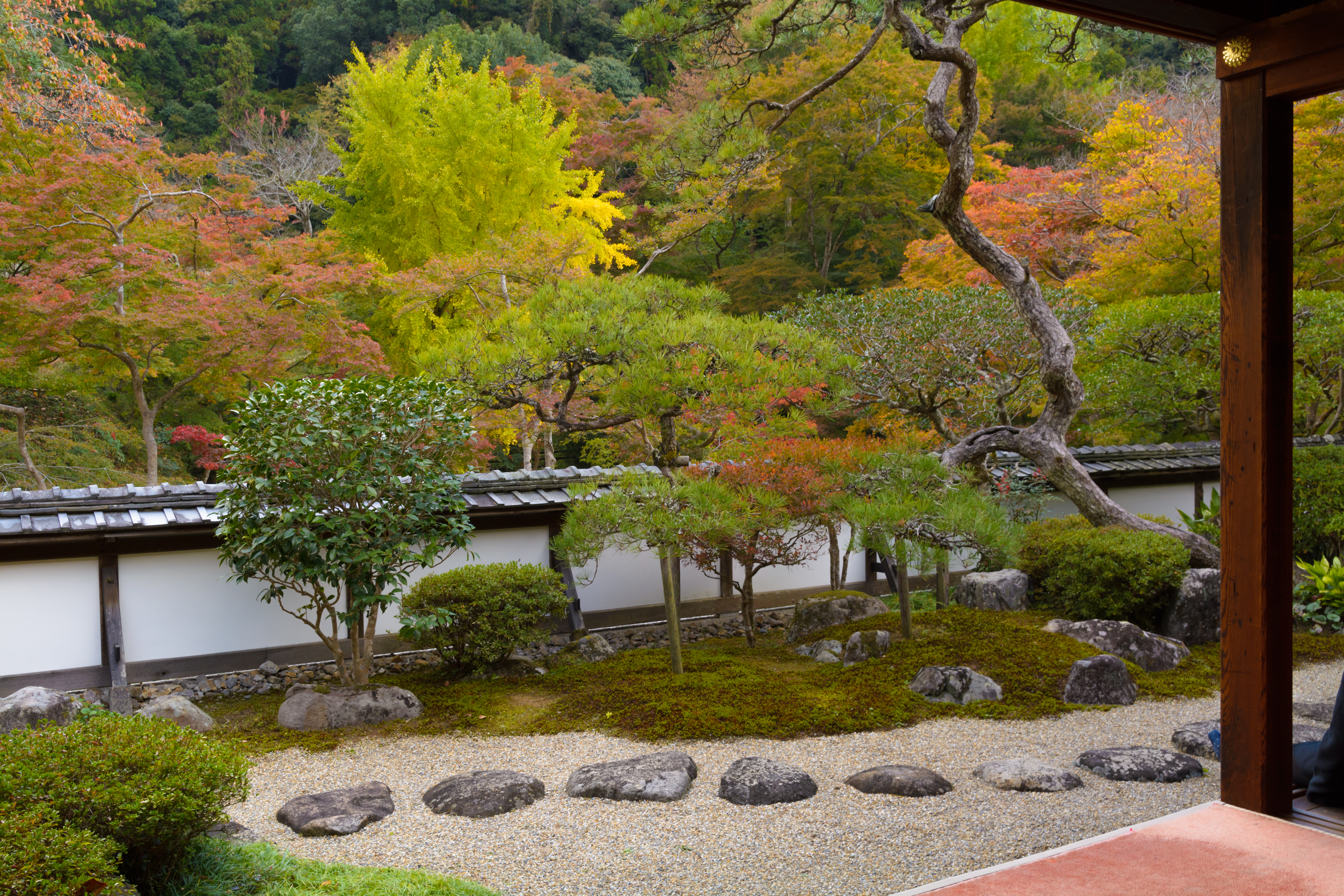 Shoryaku-ji, in Nara, Nara prefecture